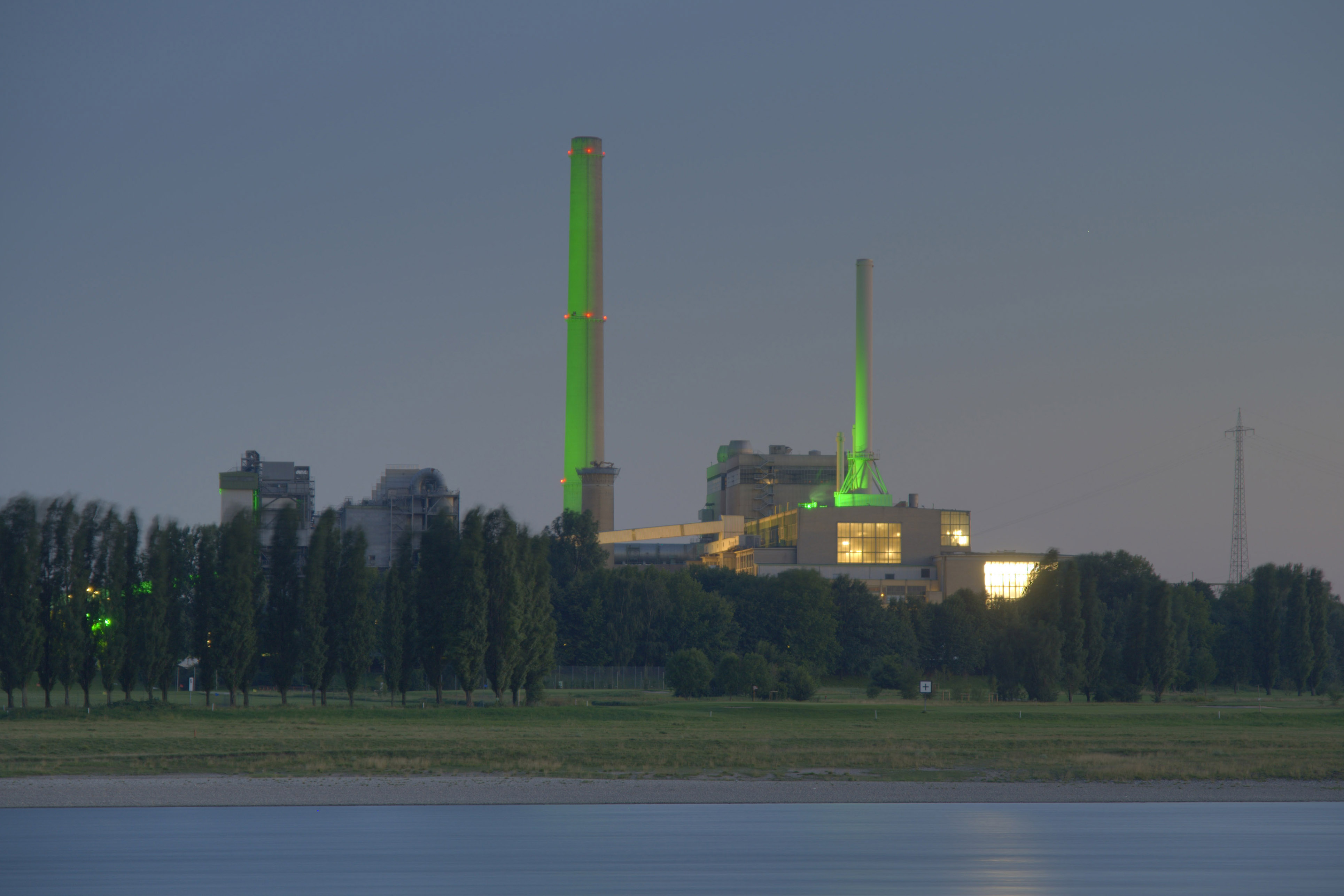 Kraftwerk Lausward, the largest power plant in Düsseldorf, Germany